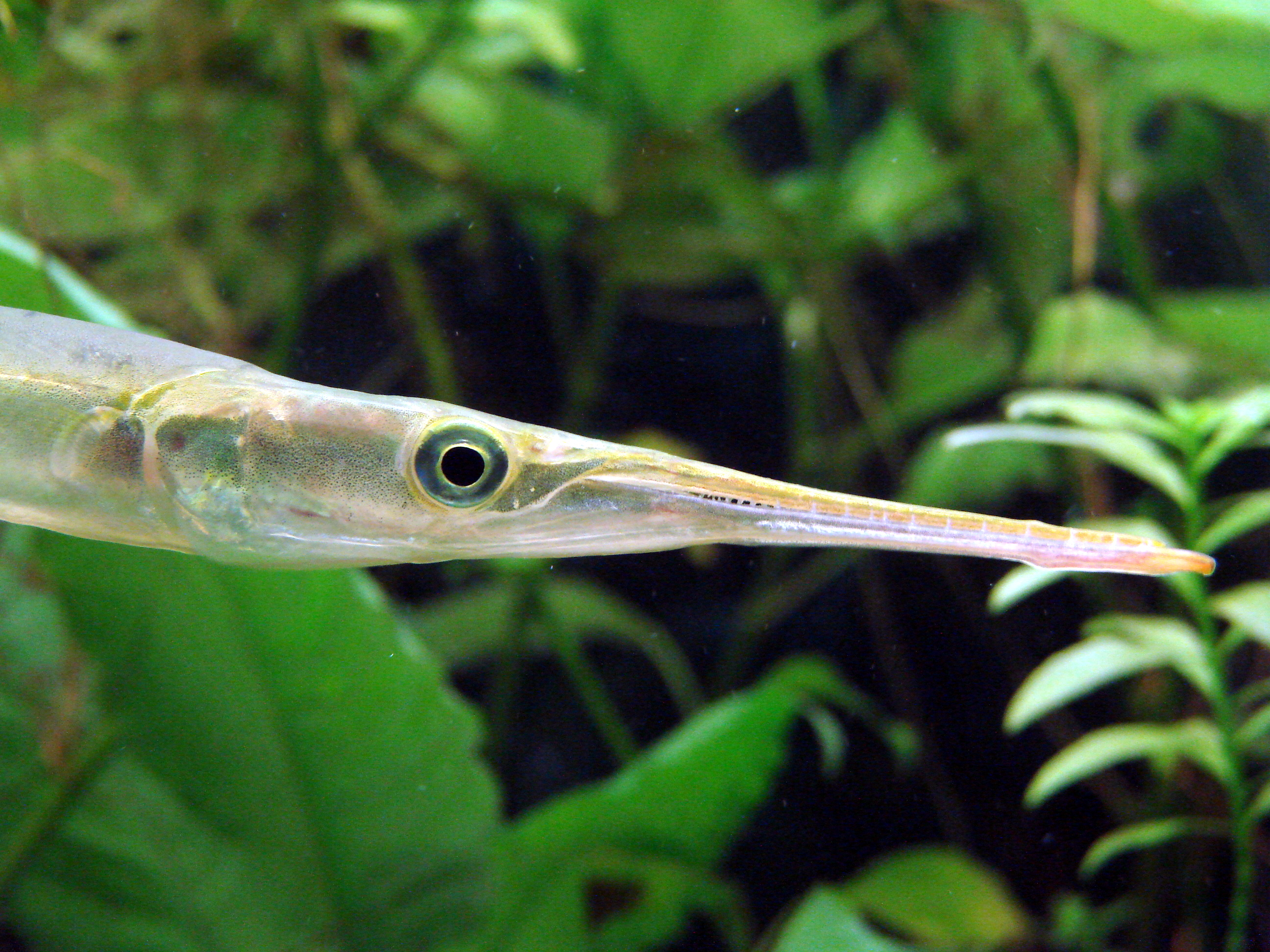 Picture taken in the zoo of Wrocław (Poland): Xenentodon cancila (Hamilton, 1822)